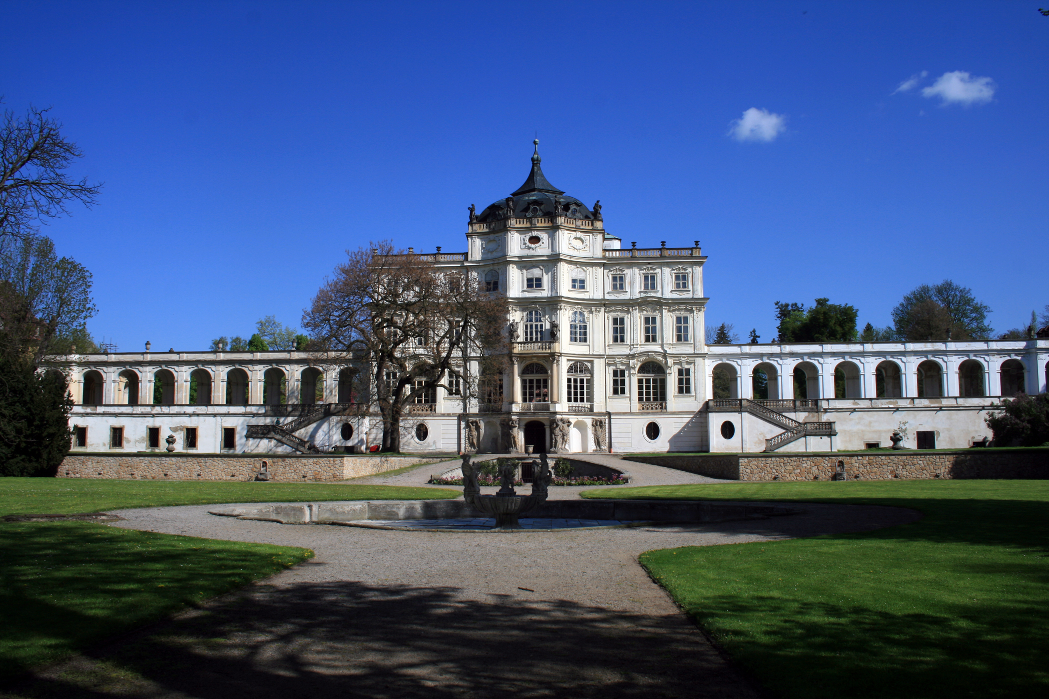 Ploskovice castle in nothern Bohemia